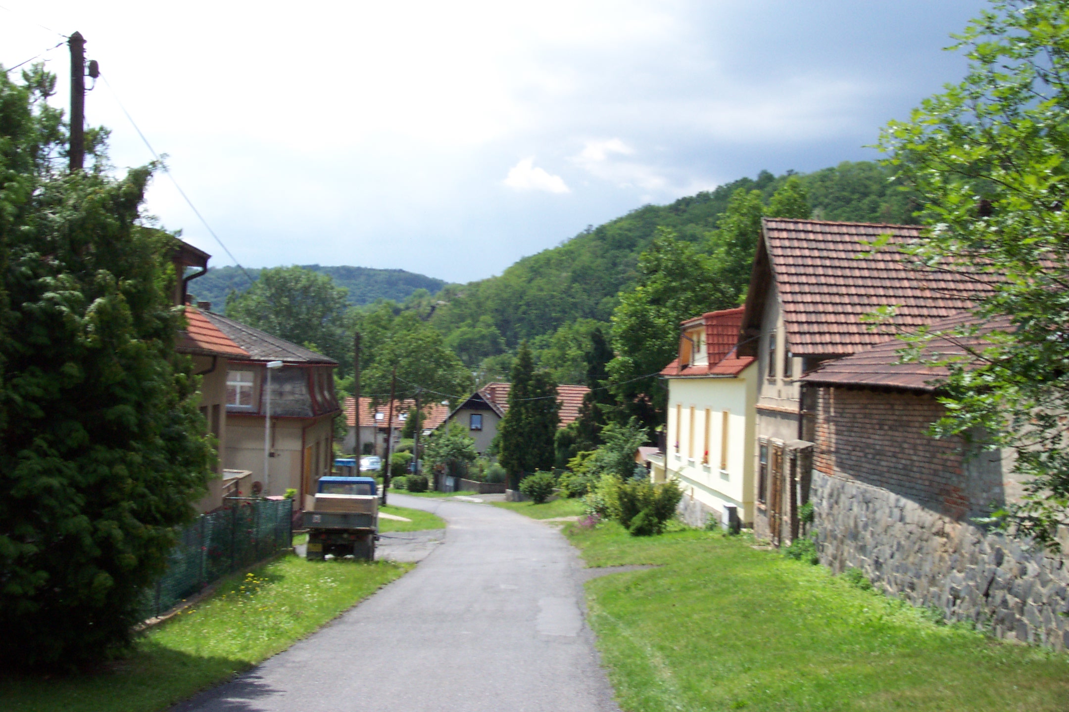 Street in Řež